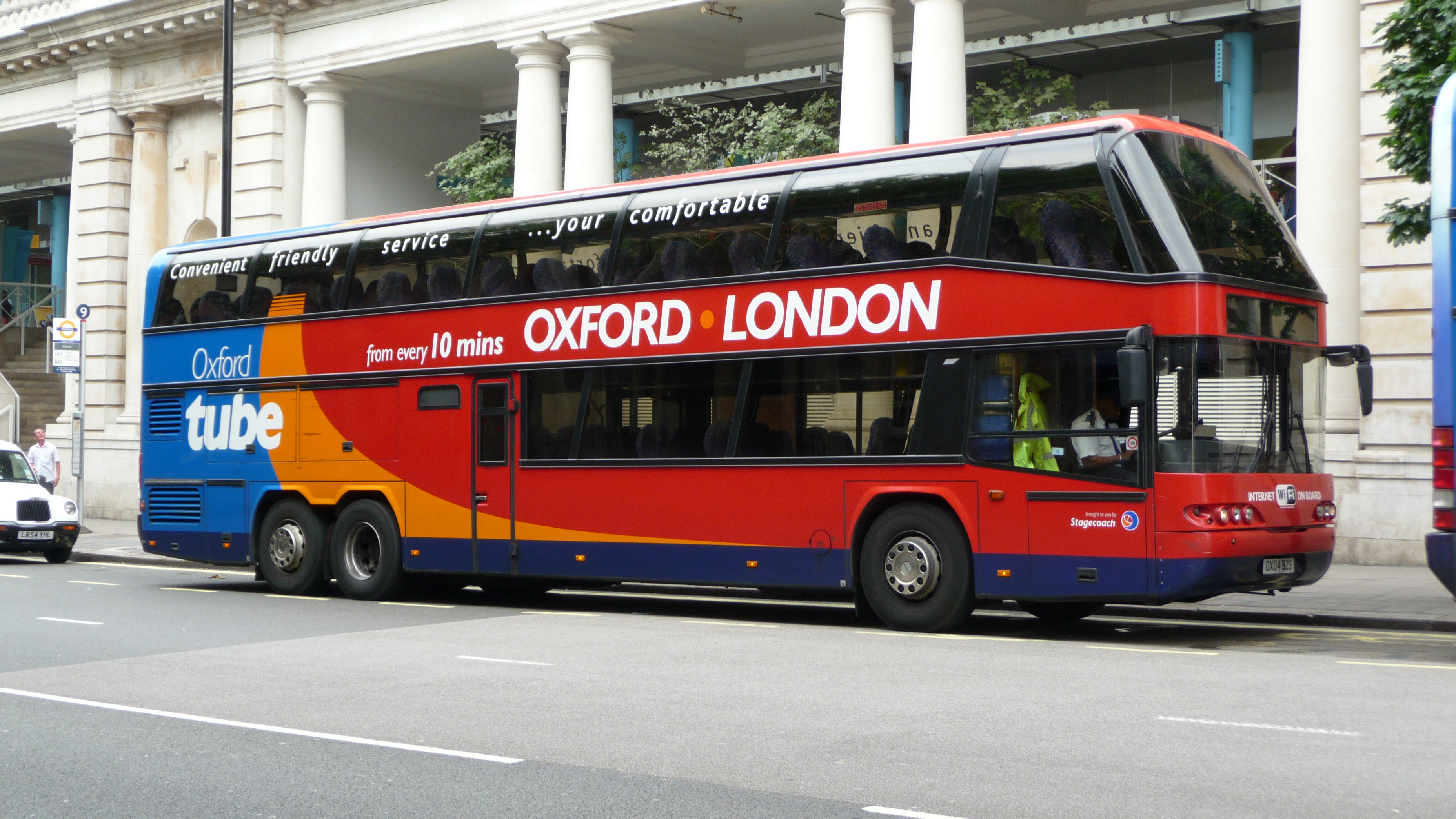 A Stagecoach in Oxfordshire Oxford Tube coach in Buckingham Palace Road, Victoria, London. It is a Neoplan Skyliner, registration mark OX04 BZS, fleet number 50123.